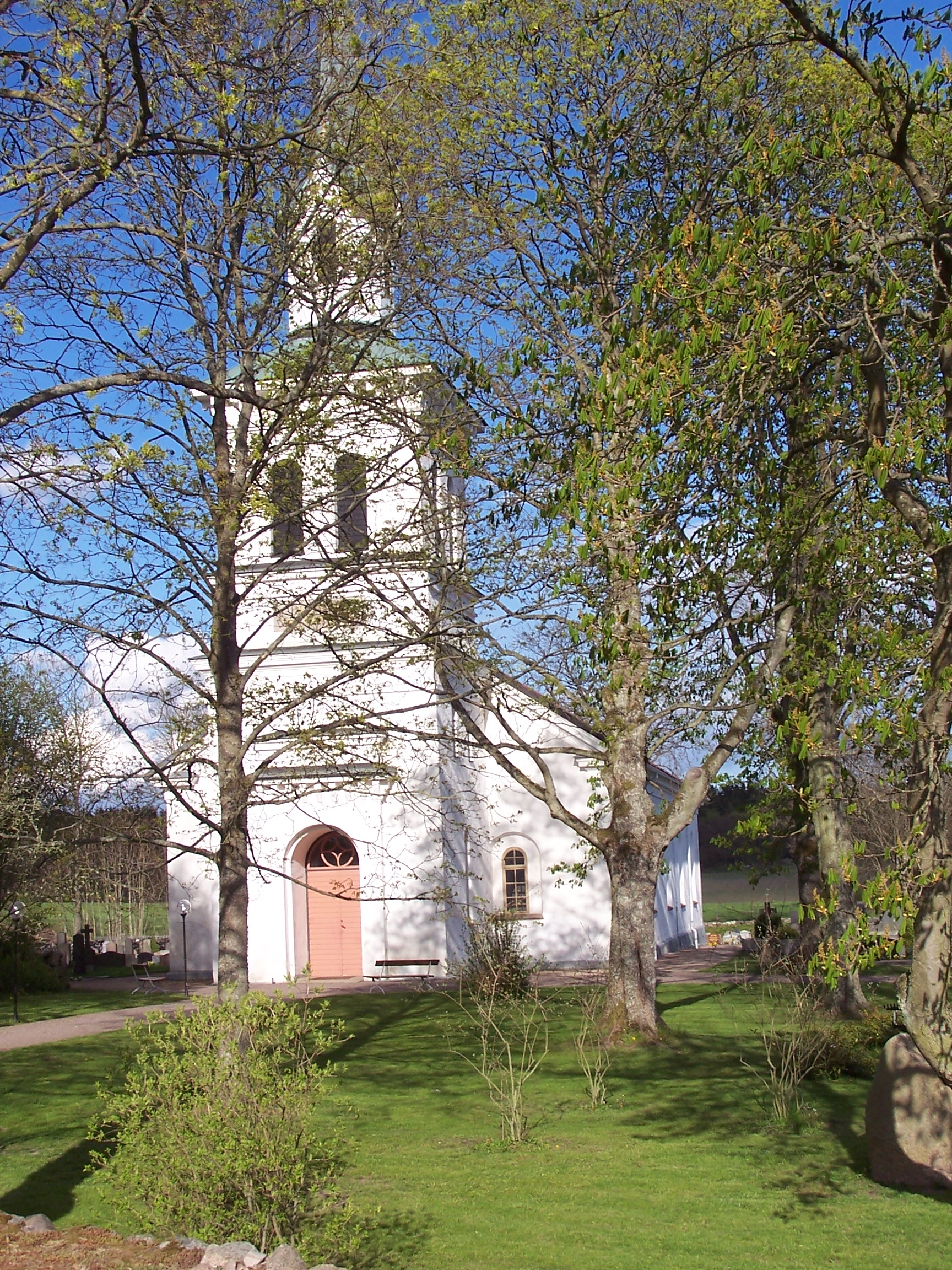 Listerby church, Ronneby parish